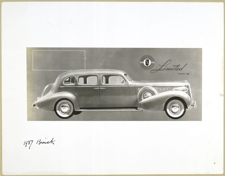 Digital ID: 481907 Source: Photographs of General Motors and Chrysler car and truck models, 1902 - 1938. / General Motors Company. Buick 1904-1938 Photographs, Specifications. (more info) Repository: The New York Public Library. Science, Industry and Business Library. General Collection Division. See more information about this image and others at NYPL Digital Gallery. Persistent URL: Rights Info: No known copyright restrictions; may be subject to third party rights (for more information, click here)